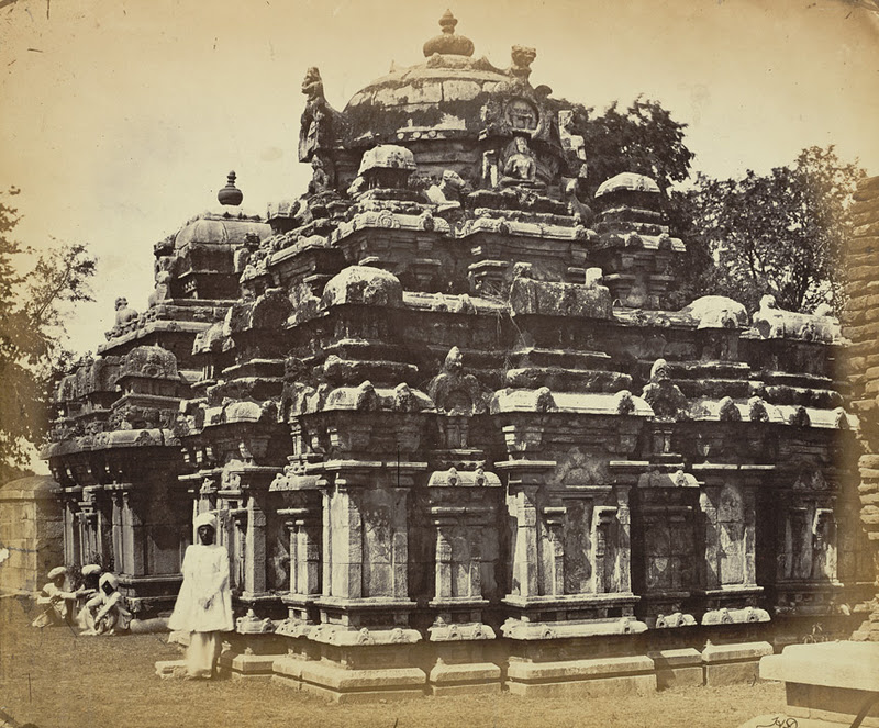 Temple at Begur (c.1868),by Henry Dixon, from the British Library